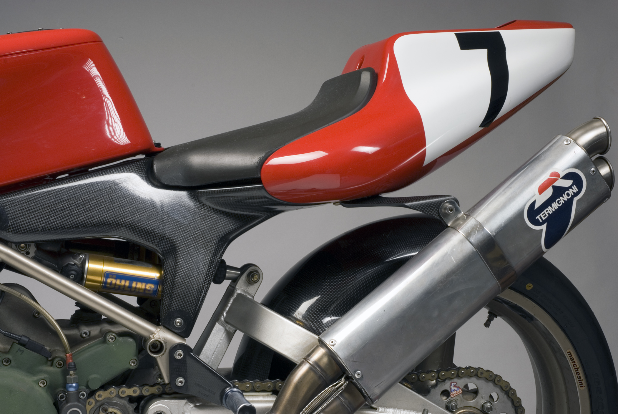 Tail section view. Shows Carbon Fibre Subframe, rear sets and exhaust hanger